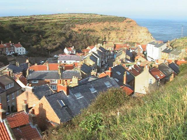 Overlooking Staithes, N. Yorks